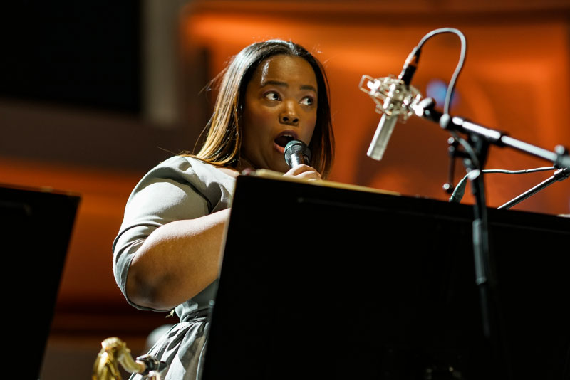 Camille Thurman (Denmark 2020) playing with Jazz at Lincoln Center Orchestra